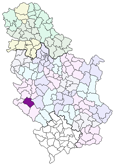 Location of Nova Varoš within Serbia